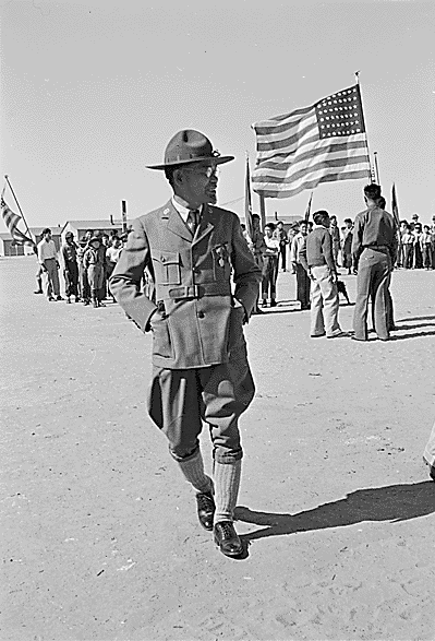 The full caption for this photograph reads: Granada Relocation Center, Amache, Colorado. A scene from the Boy Scout Memorial Day Parade, which was held at this center on May 30.